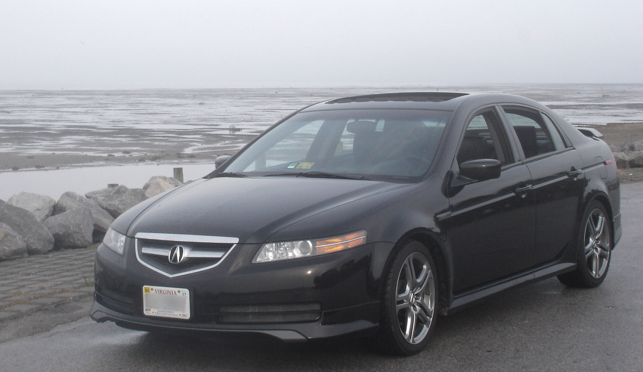 Acura TL A-Spec at the Beach